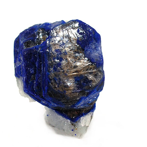 Lazurite, Muscovite Locality: Sar-e-Sang District, Koksha Valley (Kokscha; Kokcha), Badakhshan (Badakshan; Badahsan) Province, Afghanistan (Locality at ) Size: 3.5 x 2.4 x 1.7 cm. A fine and unusually sharp example of muscovite caught in the process of altering to lazurite. Ex. Martin Zinn Collection.